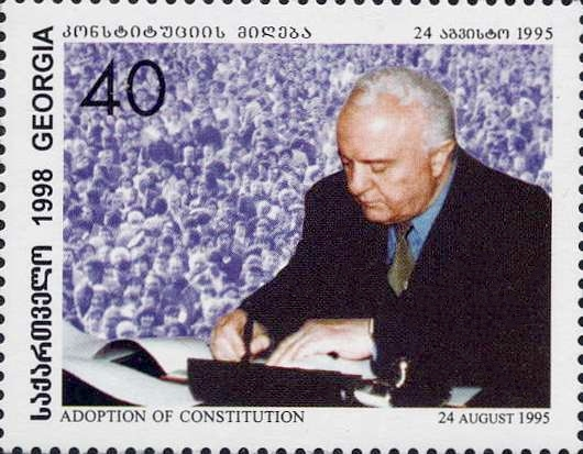 Adoption of Constitution